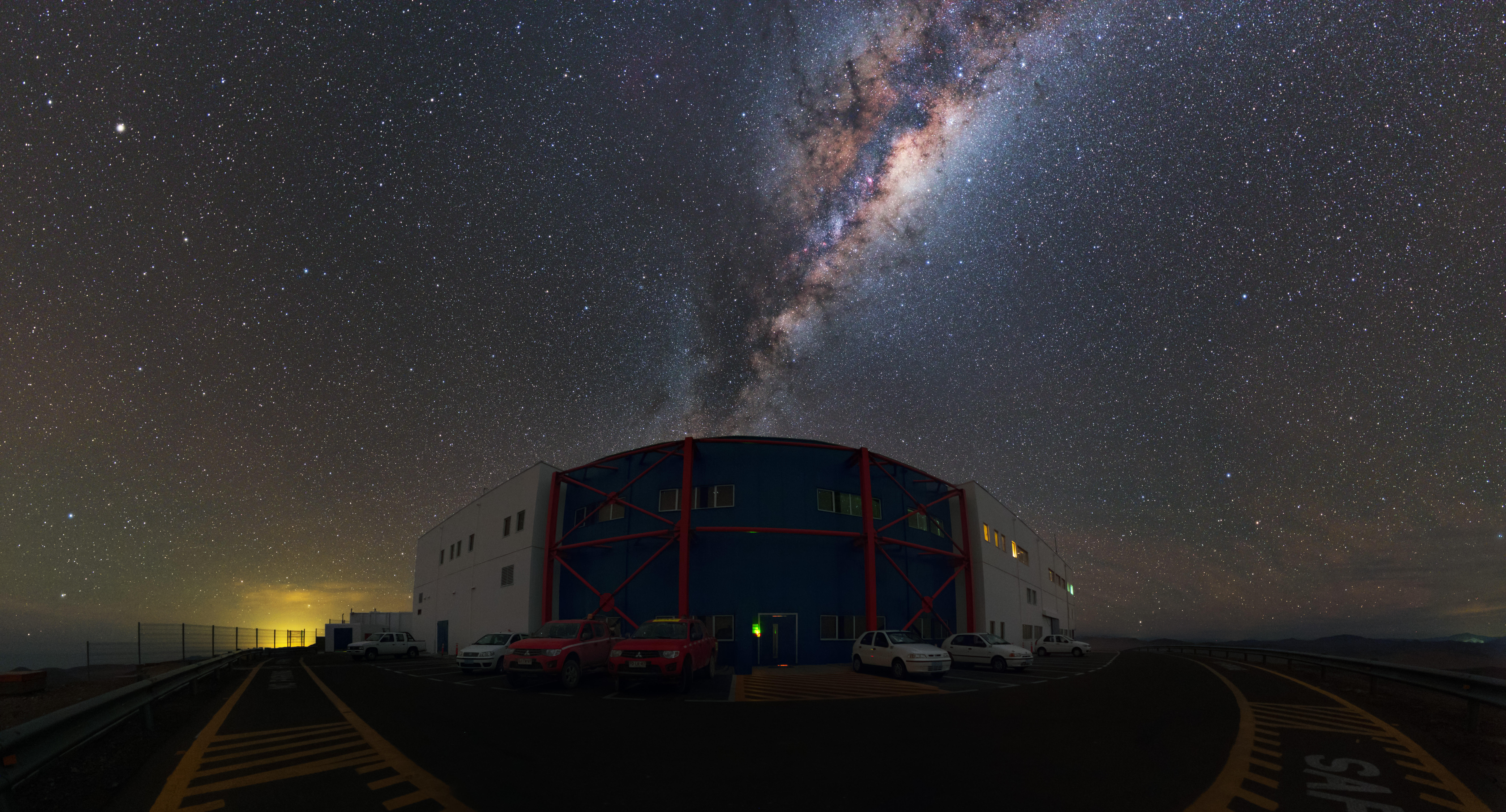 In this image, taken by ESO Photo Ambassador Yuri Beletsky, the control building at the Paranal Observatory can be seen below a rising Milky Way, like the proverbial pot of gold at the end of a celestial rainbow. This building is a hub for the observatory’s operations, and it is from here that the Very Large Telescope (VLT), the VLT interferometer (VLTI), the VLT Survey Telescope (VST) and VLT Infrared Survey Telescope for Astronomy (VISTA) are controlled and maintained. The team of astronomers, telescope and instrument operators, and engineers is on site 24 hours a day to to run these telescopes and to keep them in top condition. The control building is located on a “shelf” below the main observing platform at the top of the Paranal Mountain. All functions of the four Unit Telescopes (UTs), the four Auxiliary Telescopes (ATs), the two survey telescopes are controlled from their own areas within the central control room, via a gigantic series of computers. However, managing the observations is not just a matter of pointing the telescope towards an astronomical target — continuous monitoring of the telescope status is required, as well as making adjustments to the instruments before taking exposures to optimise their function. It is also necessary to transfer and store the large amounts of data generated, as well as check the quality of the incoming results. Not even the incredible view outside the window is enough to prevent the team from working hard to maintain Paranal’s reputation as one of the world’s most productive and powerful ground-based observatories.